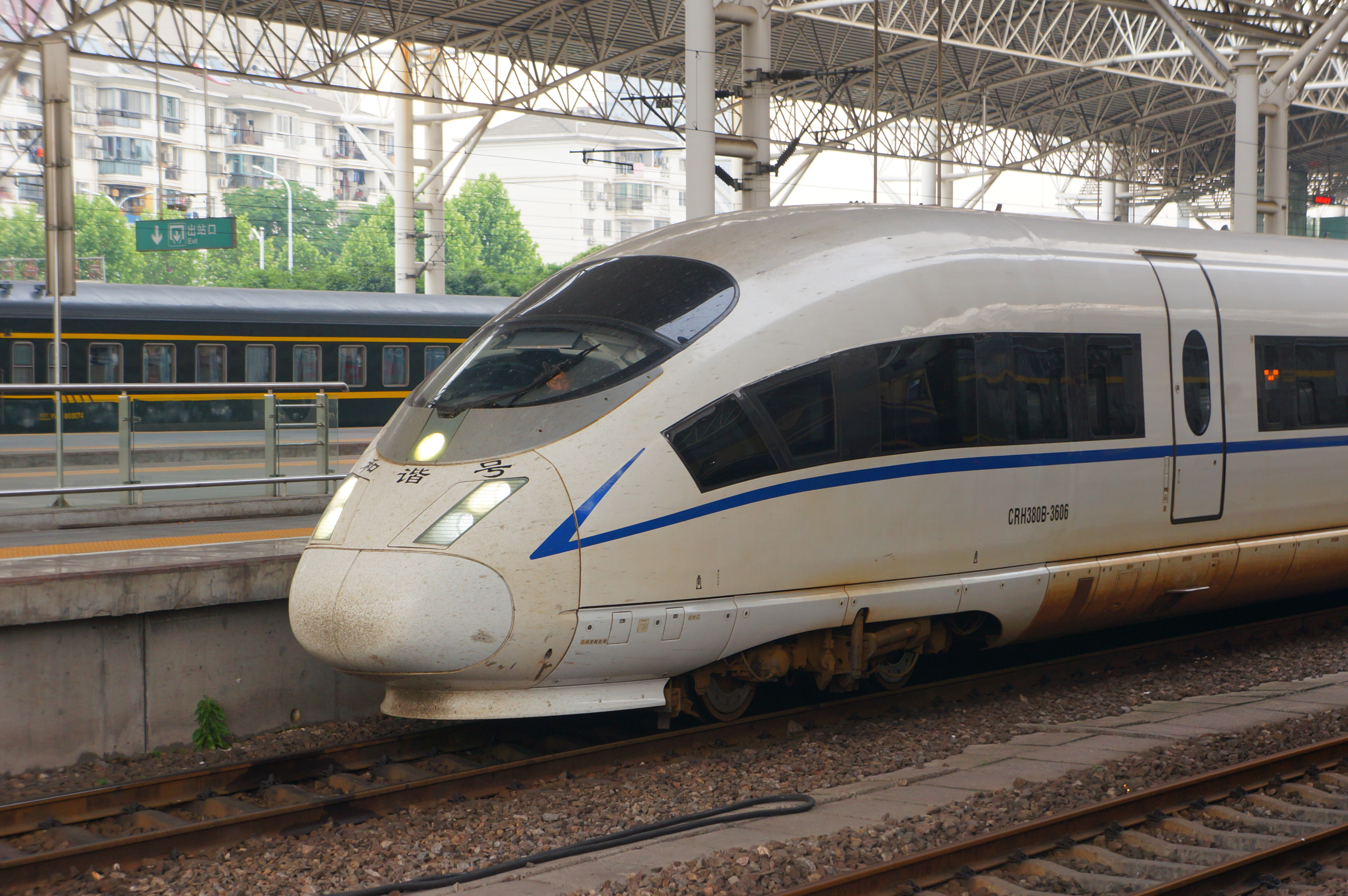 201705 CRH380B-3606 at Hefei Station. This EMU operates as Hefei-D5497-Lu'an-G266-Beijingnan...